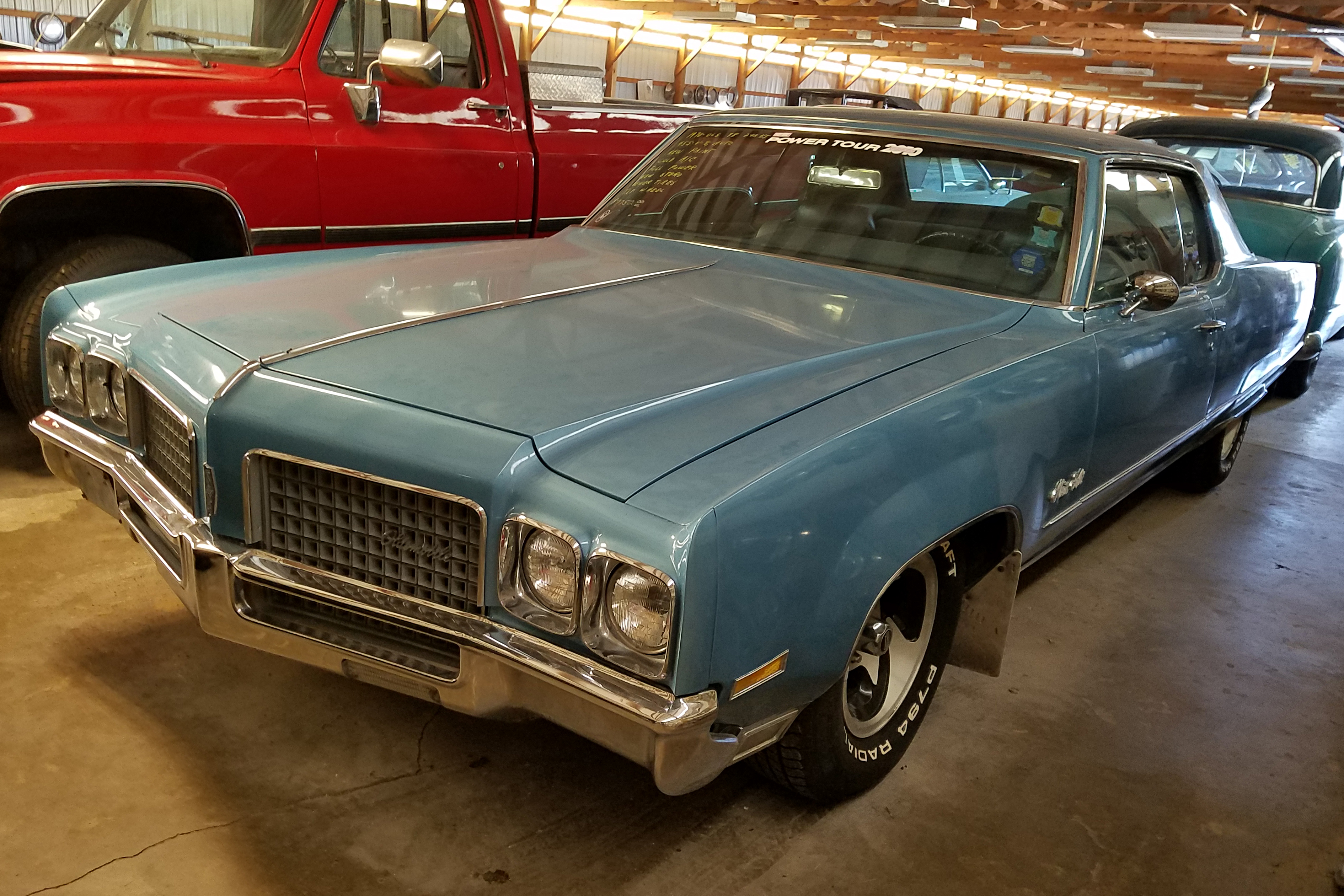 1970 Oldsmobile 98 Coupe